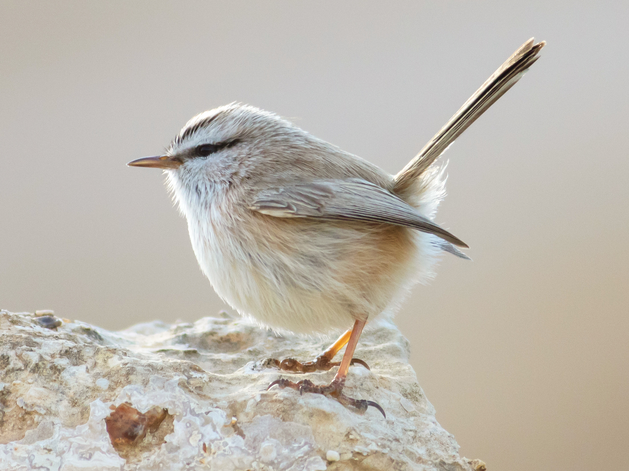 Streaked scrub warbler (Scotocerca inquieta) ,photo taken next to Sde Boker, Israel.